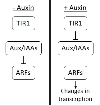 Diagram of the auxin signal cascade